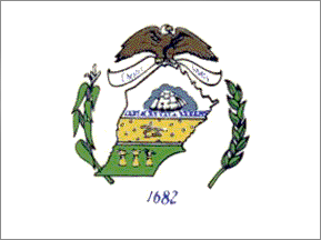 Flag of Chester County, Pennsylvania, USA